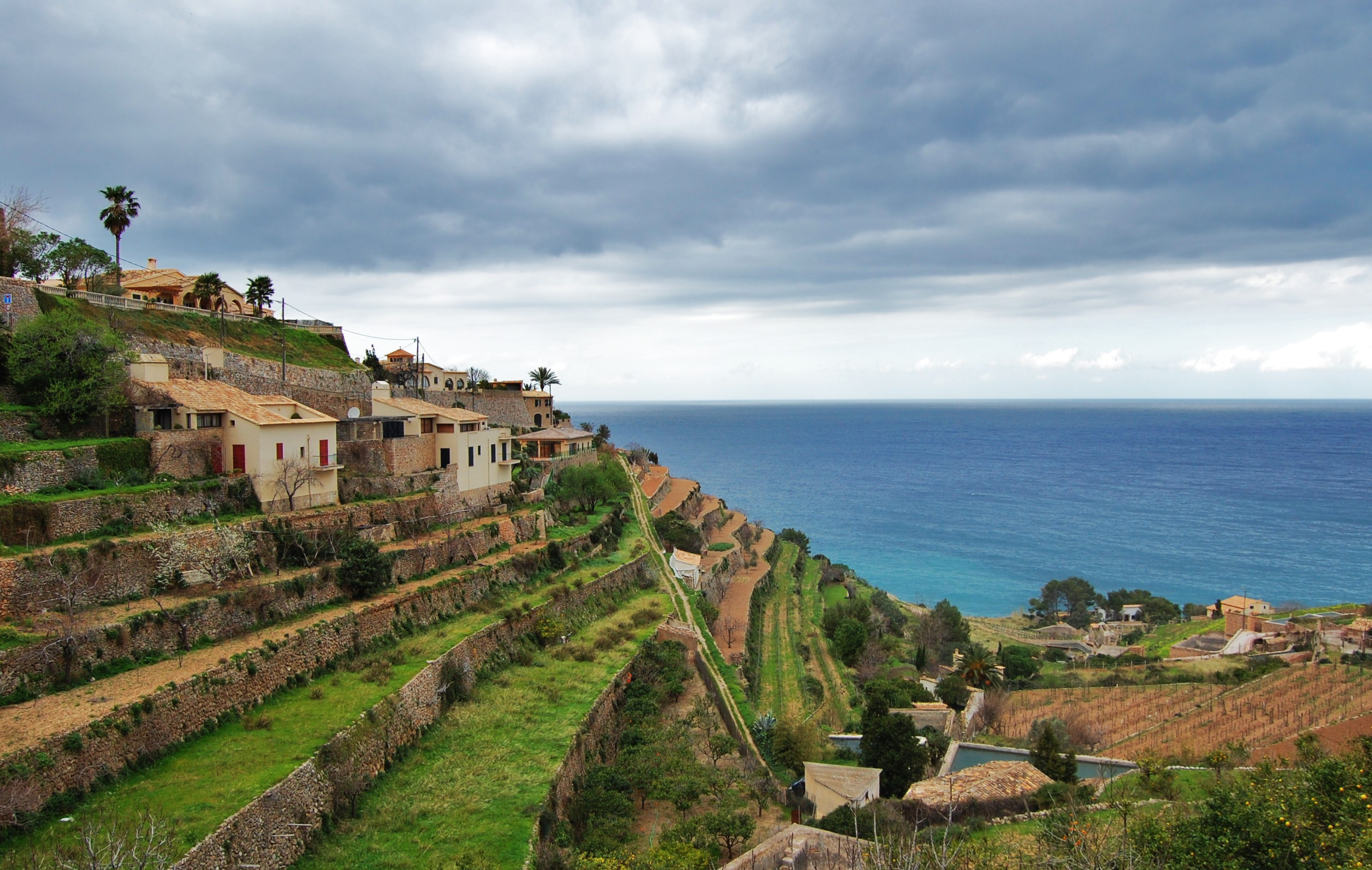 Terraces in Banyalbufar, Cultural Landscape of the Serra de Tramuntana This is a a photo of a natural area in the Balearic Islands, Spain, with id: ES530036